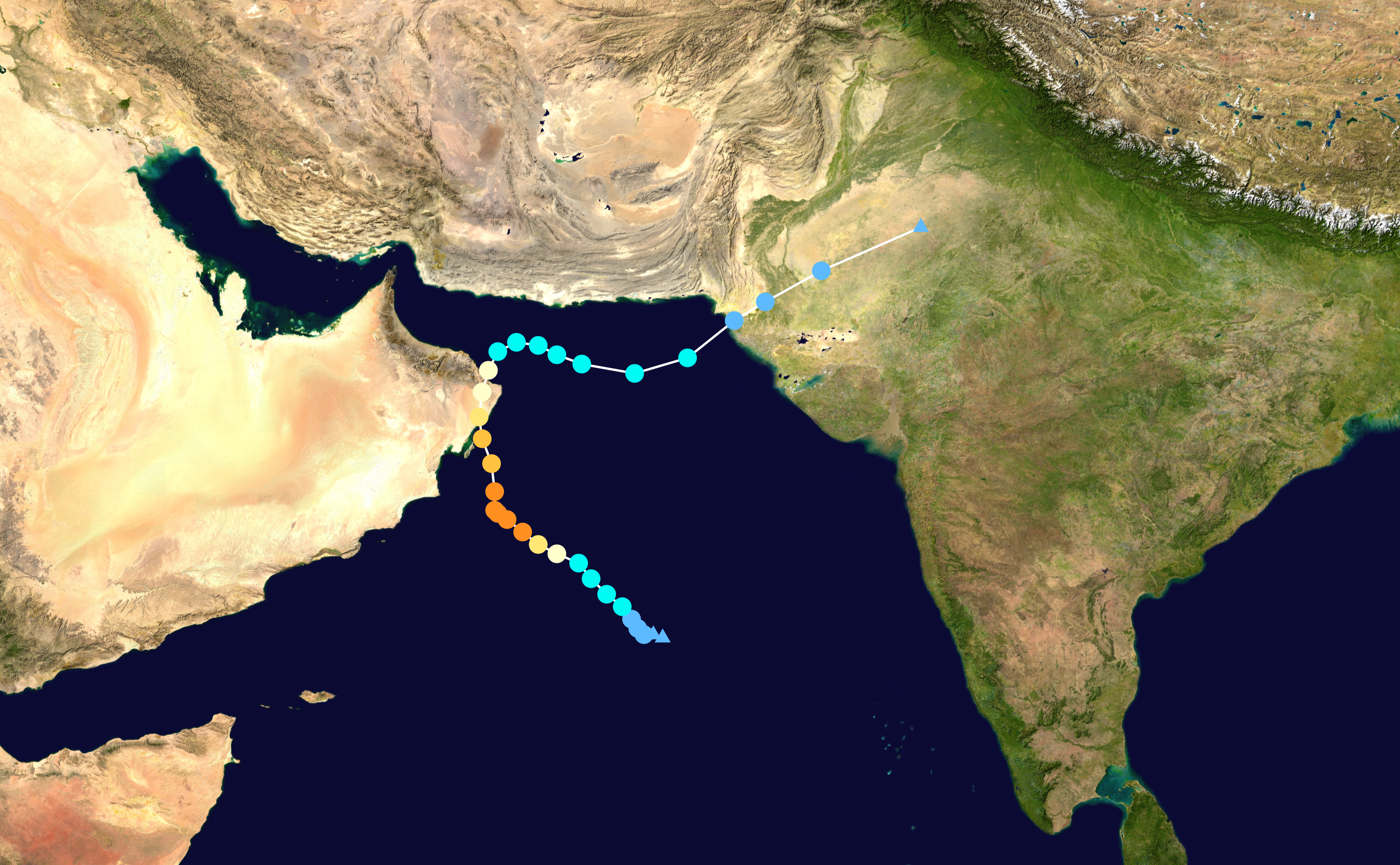 Track map of Very Severe Cyclonic Storm Phet of the 2010 North Indian Ocean cyclone season. The points show the location of the storm at 6-hour intervals. The colour represents the storm's maximum sustained wind speeds as classified in the Saffir–Simpson scale (see below), and the shape of the data points represent the nature of the storm, according to the legend below. Saffir–Simpson scale Tropical depression≤38 mph≤62 km/h Category 3111–129 mph178–208 km/h Tropical storm39–73 mph63–118 km/h Category 4130–156 mph209–251 km/h Category 174–95 mph119–153 km/h Category 5≥157 mph≥252 km/h Category 296–110 mph154–177 km/h Unknown Storm type Tropical cyclone Subtropical cyclone Extratropical cyclone / Remnant low / Tropical disturbance / Monsoon depression